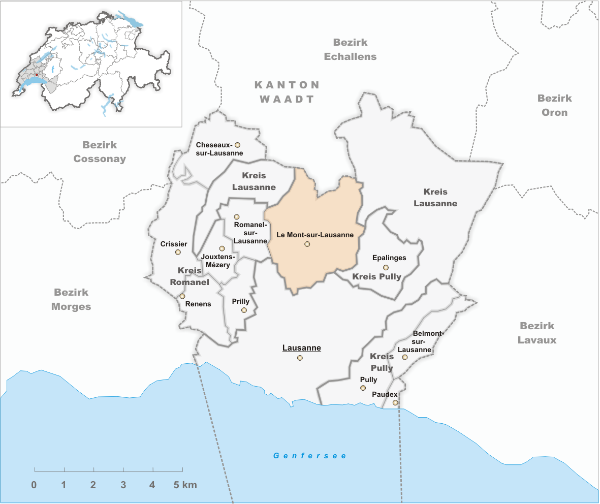 Municipality Le Mont-sur-Lausanne